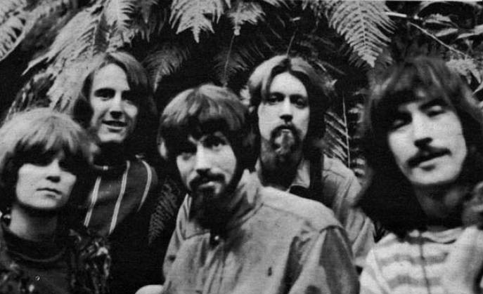 Photo of the rock group The Peanut Butter Conspiracy. From left-Sandi Robison, John Merrill, Jim Voigt, Lance Fent and Al Brackett.